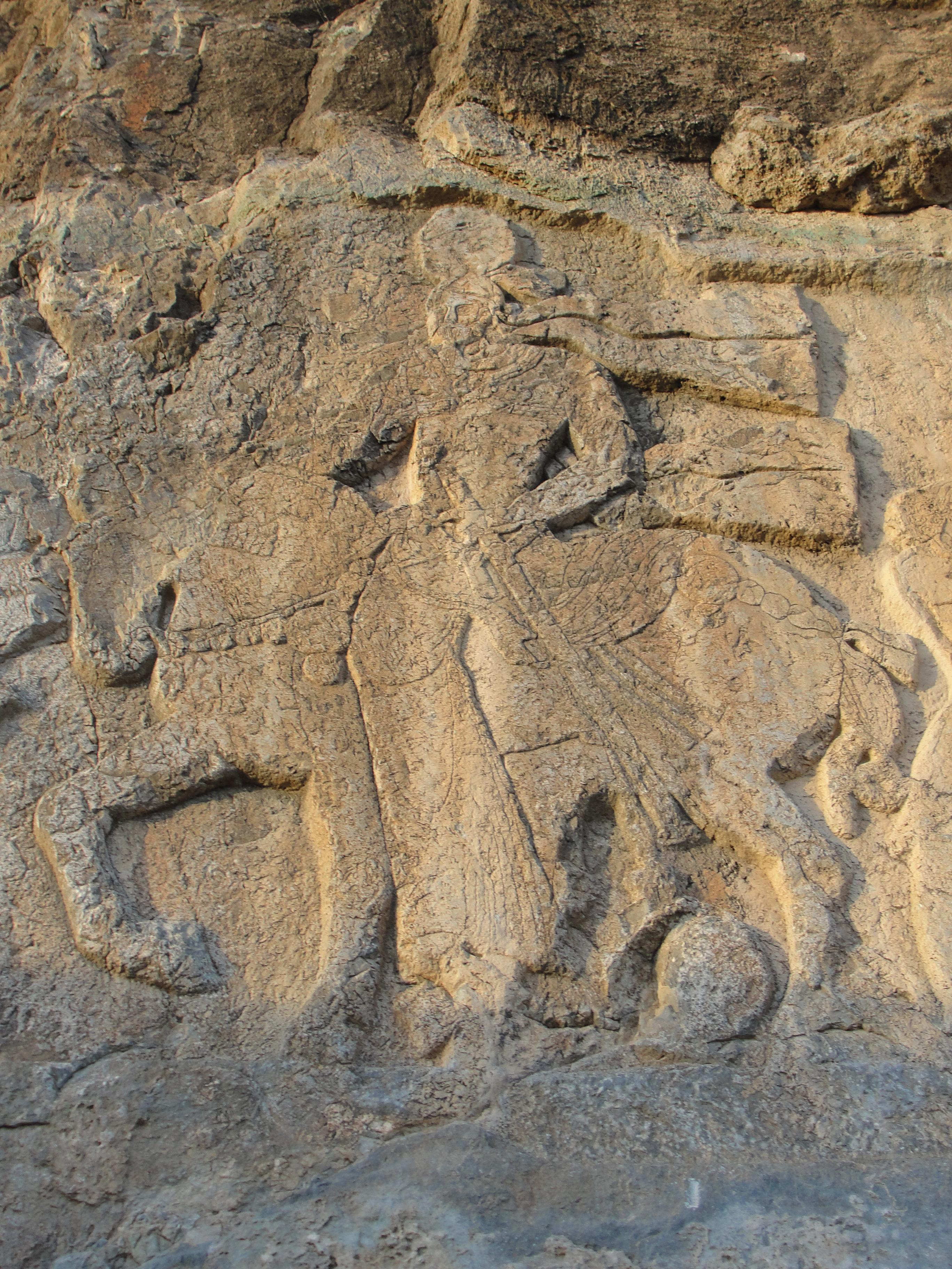 Figure of Ardashir Papakan (Founder of Sassanid Empire) on Khan Takhti rock relief - Salmas to Urmia road